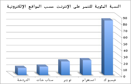 Percentage of what media is being used for cyberbullying